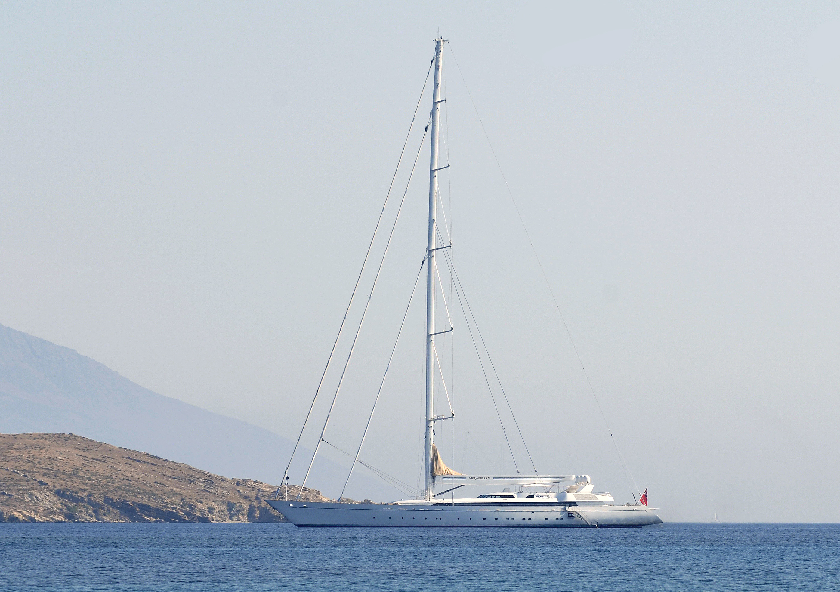 Mirabella V at Rinia, Cyclades, Greek